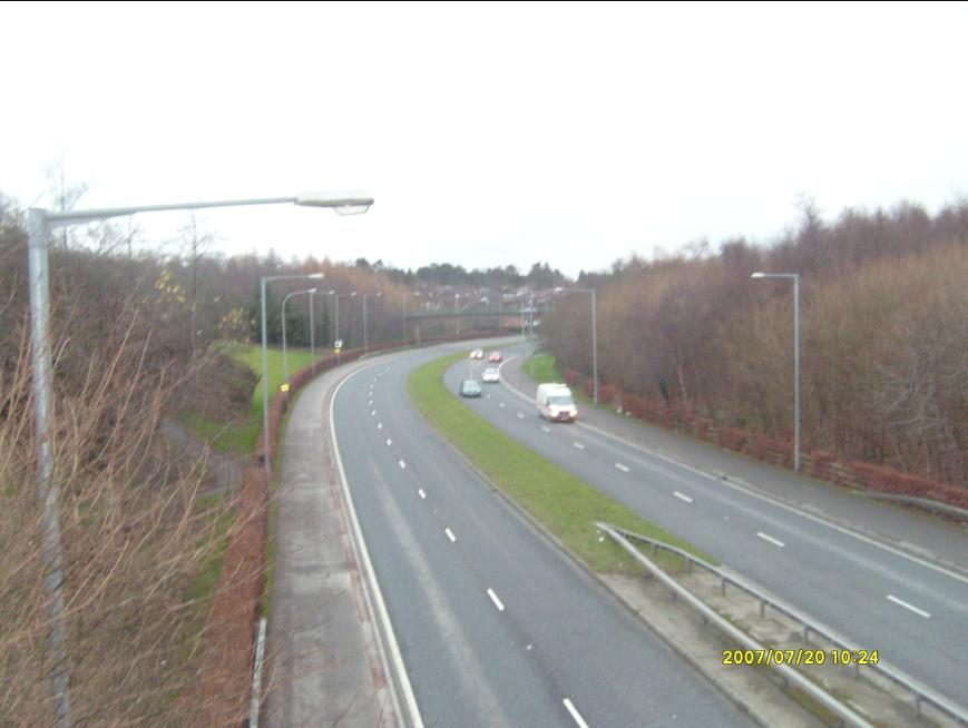 A55 Baile Uí Mheacháin, Béal Feirste, Condae an Dúin (radharc siar ó dheas)